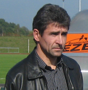 Damian Halata. At that time he was the coach of ZFC Meuselwitz. The picture was taken during halftime at the match of FC Eilenburg vs. ZFC Meuselwitz.